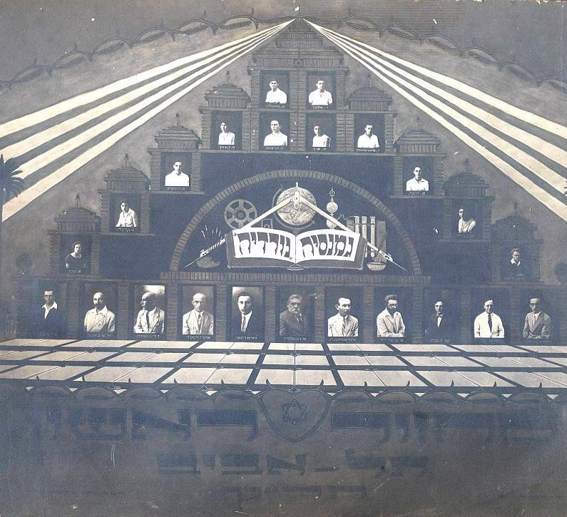 Norida high school teachers